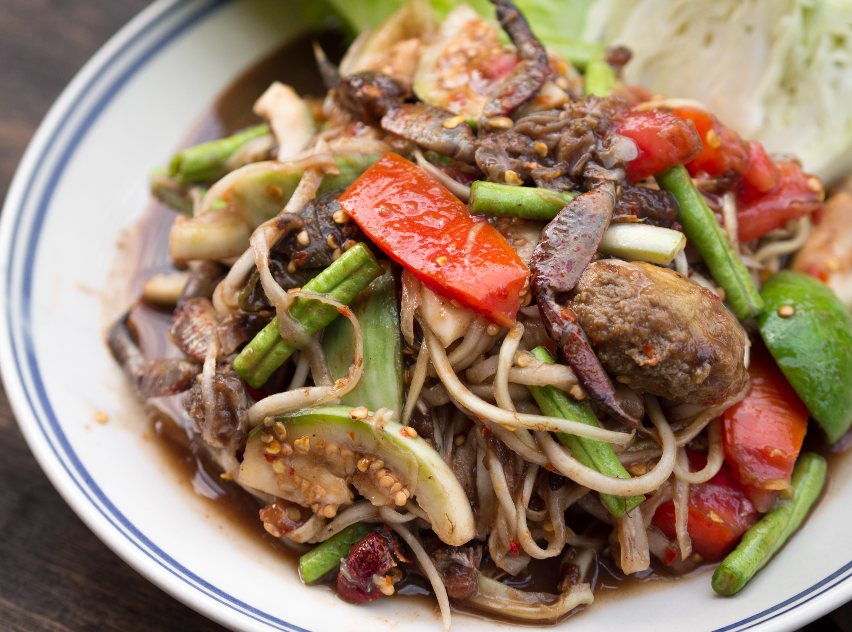 A plate of som tam Lao (Thai script: ส้มตําลาว). The name is sometimes shortened to just tam Lao. This version of green papaya salad will contain fermented fish (pla ra or padaek), chillies, pickled rice paddy crab, lime, yardlong beans, tomato, sugar, Thai aubergine, and shredded green papaya. This particular version also contains tamarind juice for added "smoothness" and makok (the fruit of the Spondias mombin of which the large seed is easily recognisable on the right hand side of the dish).